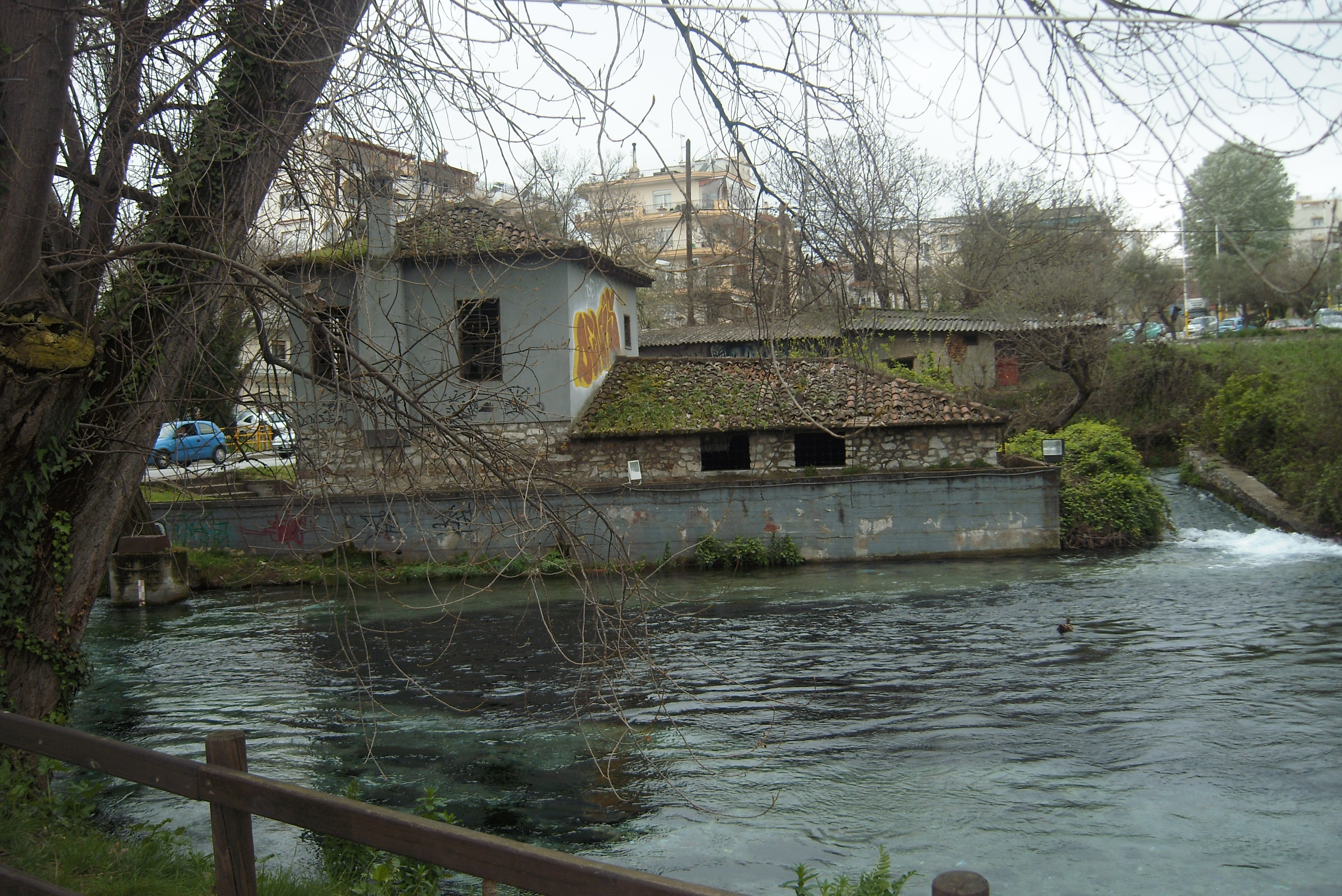 Zonke Watermill in Drama